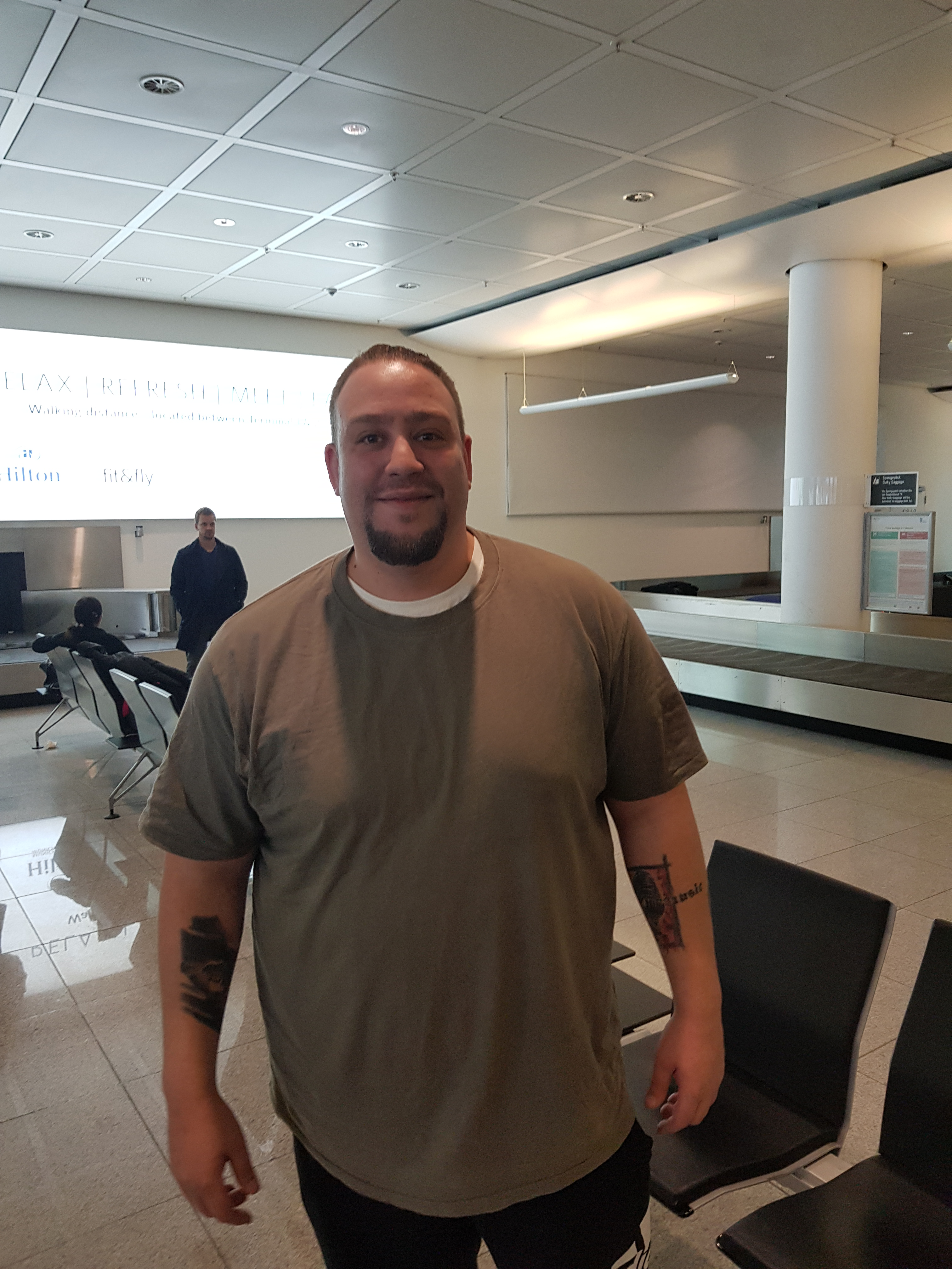 Artist Nano from Sweden on a trip to Munich, Germany November 2017.